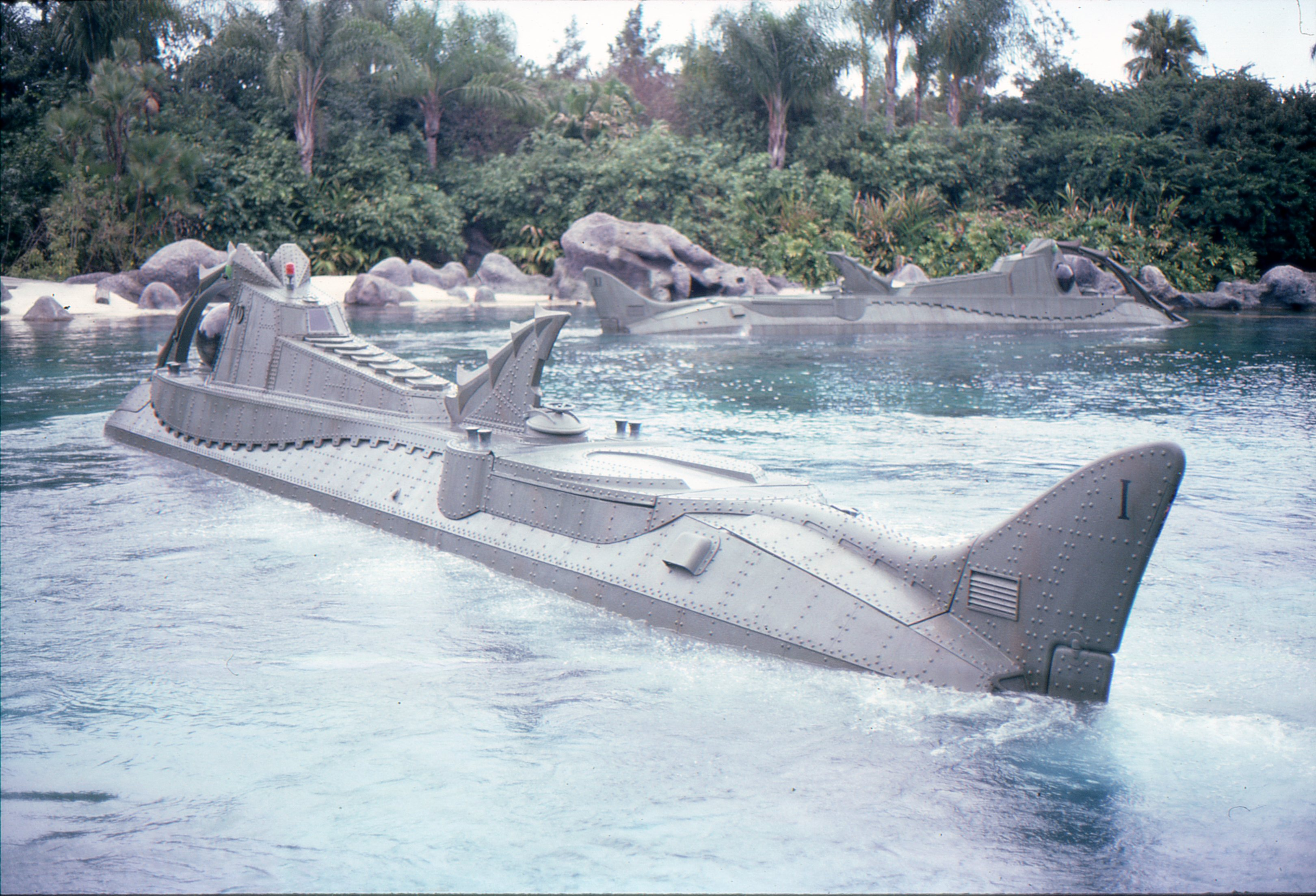 The 20,000 Leagues Under the Sea ride at Disneyworld, in roughly the spring of 1979.